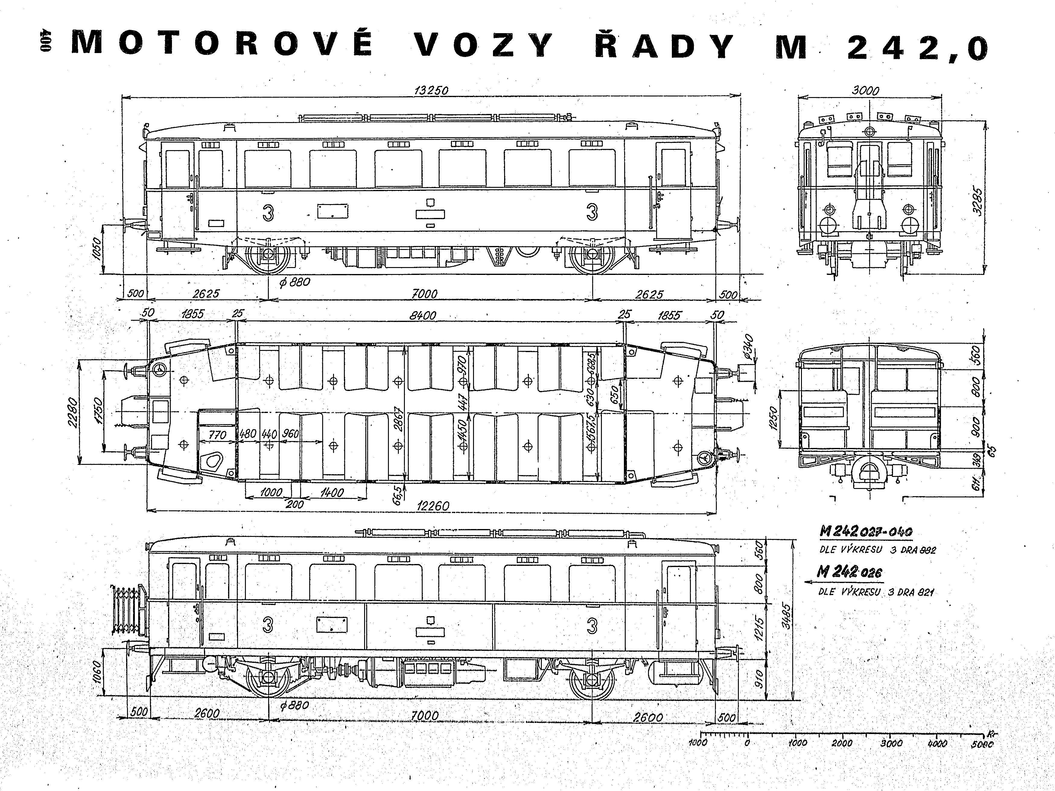 Scale drawing M 242,0 locomotor